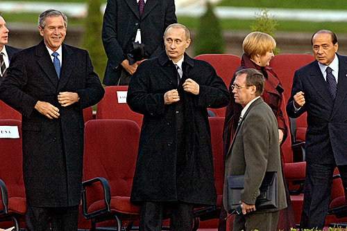 PETERHOF. President Putin with US President George W. Bush after the water and musical show, Peterhof Magical Fountains. Right - Lyudmila Putin and Italian Prime Minister Silvio Berlusconi.